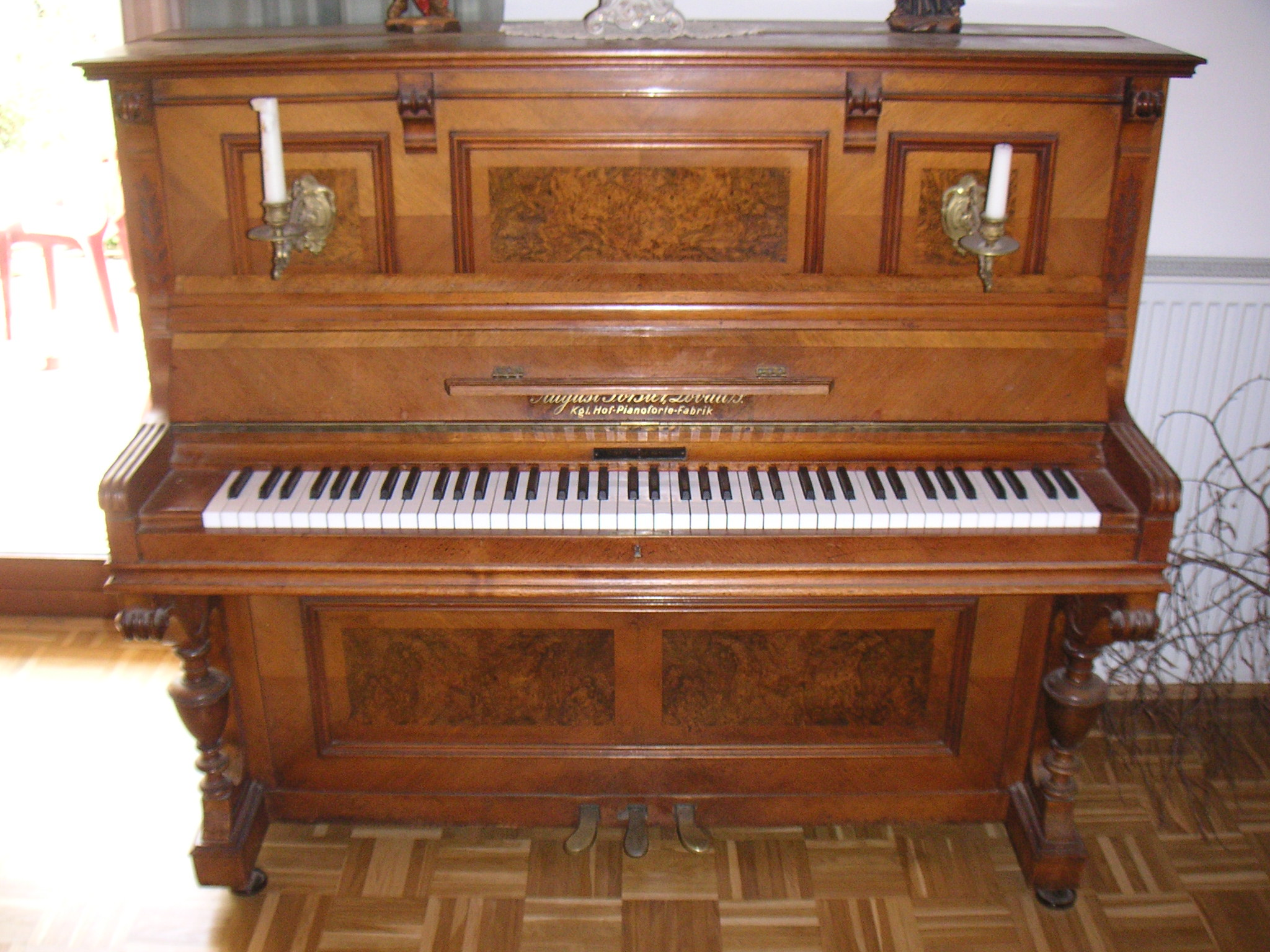 piano, open.